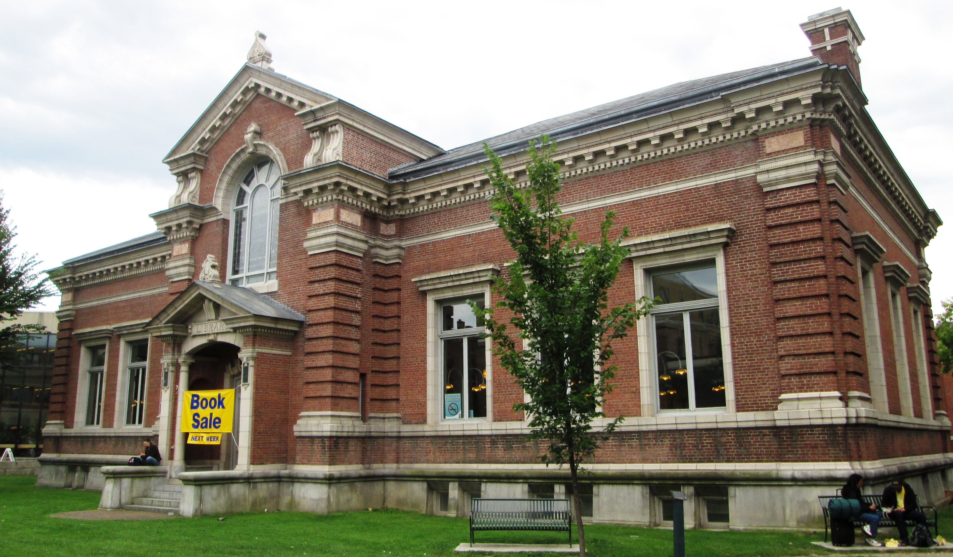 The Fletcher Free Library at 253 College Street at the corner of S. Winooski Avenue in Burlington, Vermont was established in 1873 but outgrew its initial building on Church Street by 1901. A new building was constructed in 1901-04 with funds provided by industrialist and philanthropist Andrew Carnegie. It was designed in the Beaux-Arts style by Walter R. B. Willcox of Burlington, who won a competition to receive the commission. The building had major settling problems in 1973 where it had been built over a former railroad ravine, which had been improperly filled in, and the collection was moved elsewhere. The possible razing of the building was stopped by a citizens' committee which successfully had it added to the National Register of Historic Places, and a grant allowed the stabilization and repair of the building. A new addition was completed in 1981. (Sources: [1] and [2])